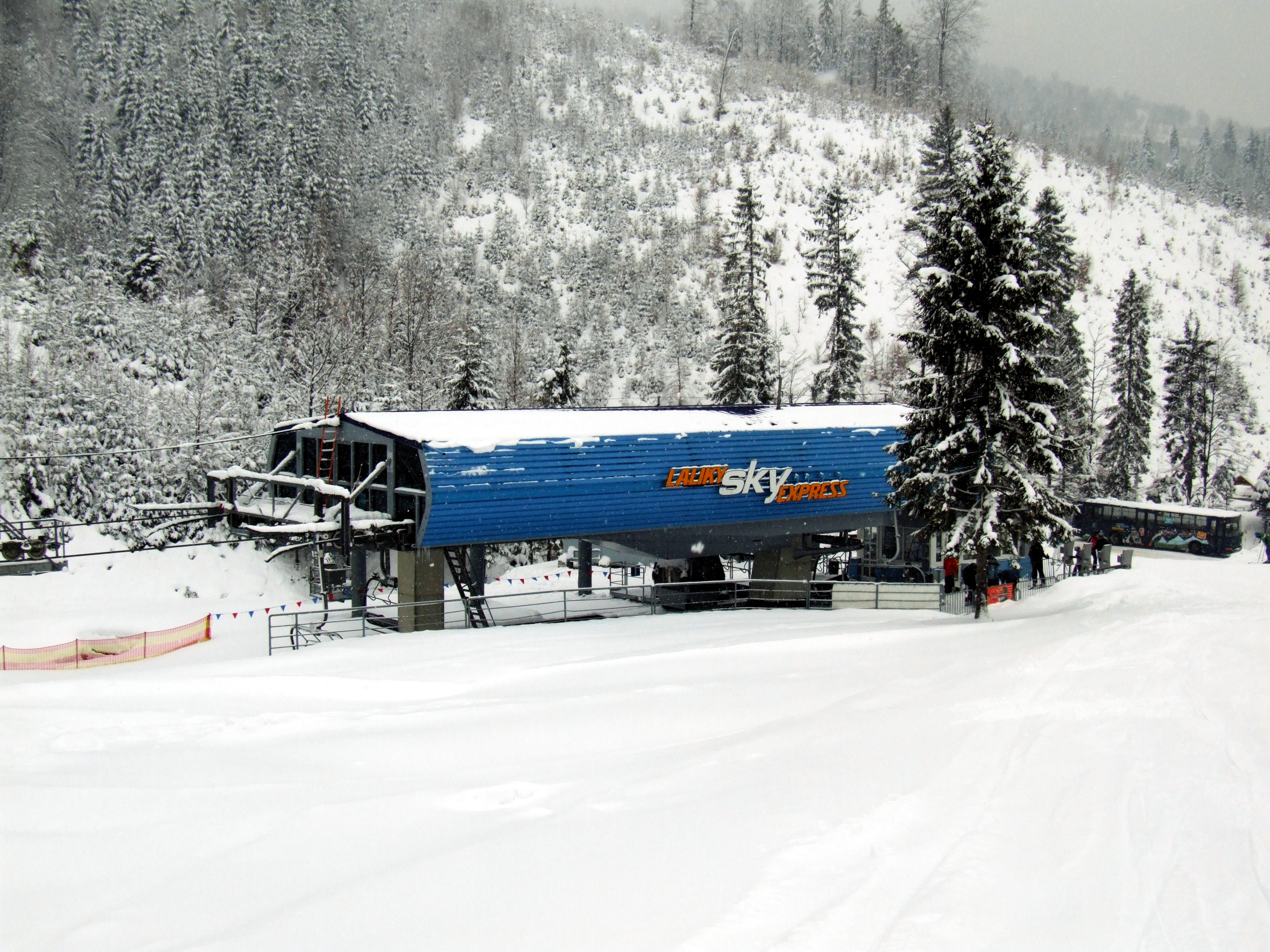 Snow Paradise Veľká Rača Oščadnica, Láliky, Slovakia